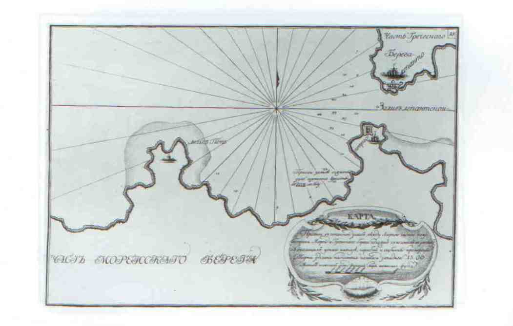 This is chart of the channel at the entrance to the Gulf of Corinth. Chart of the Channel leading into the gulf of Lepanto between the northern part of Moreas Peninsula and the Greek coast, drawn after bearings taken from the russian ships anchored therein, with depths measured. The charthas been complied with compass with western variation of 15.00. Scale in sazhens of 7-feet measure of English feet. Scale about 1:210000. The chart was made by russian navy during russo-turkish war 1769-1774. The place Battle of Patras is signed on the chart.